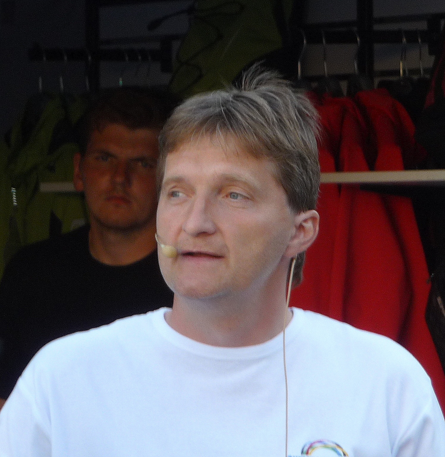 Jaromír Bosák hosts project Žijeme Londýnem, Freedom Square, Brno